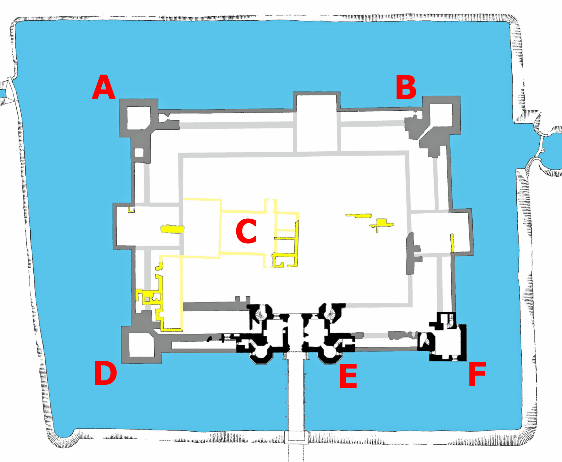 Based on original by Peers, 1917; cleaned up, adjusted, labelled etc. by Hchc2009